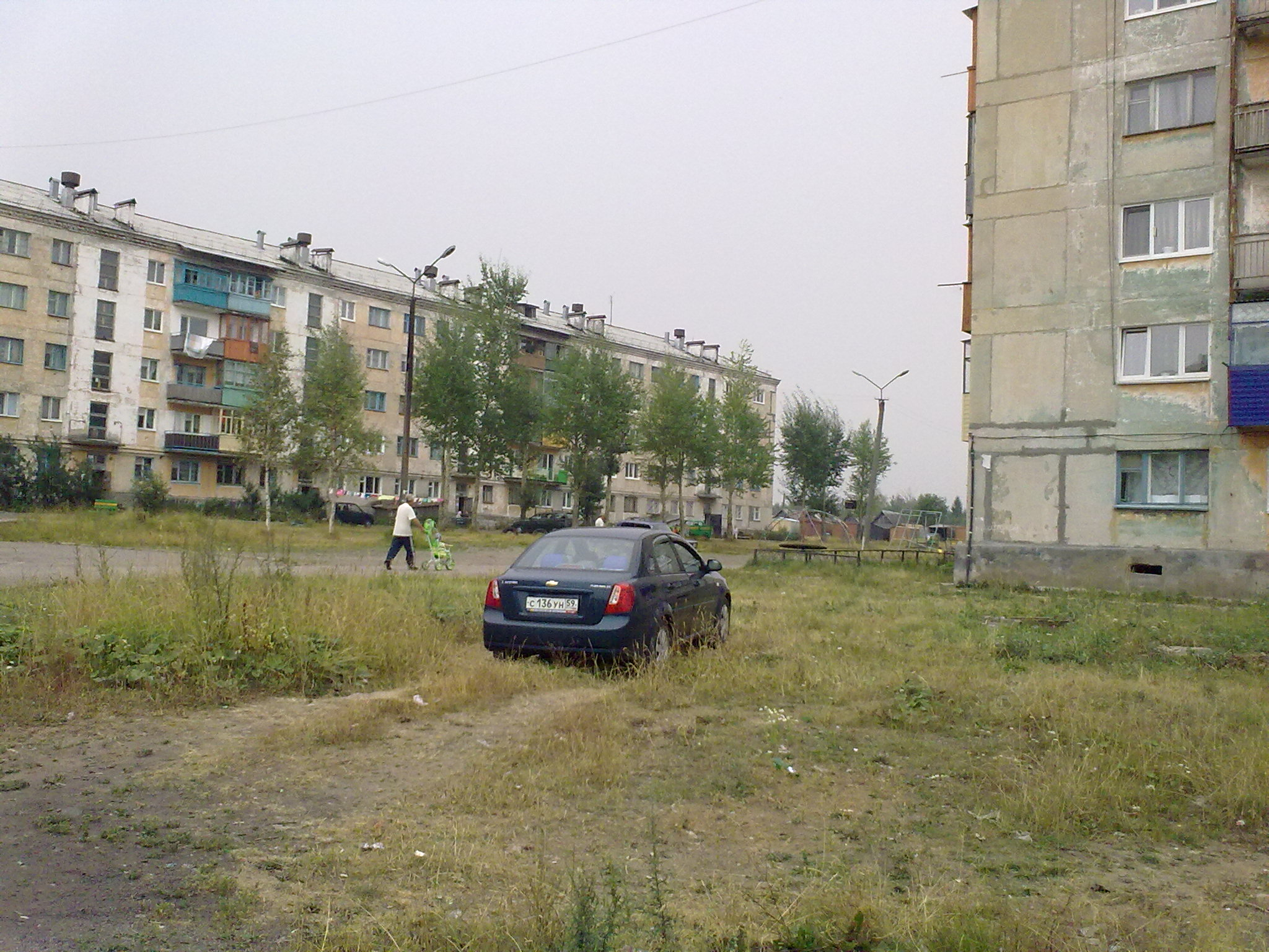 Kizel_Makarenko